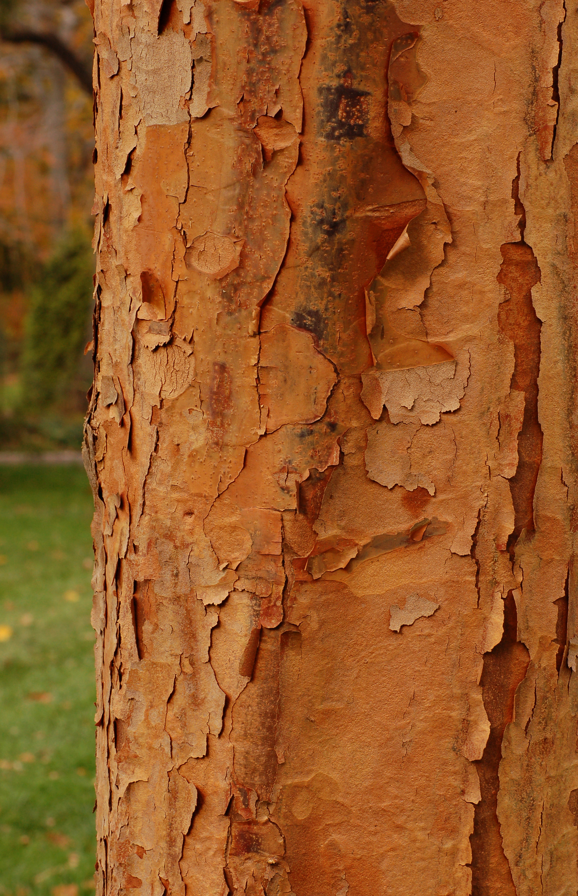 Picture of the bark on the Paperbark Mapleen Acer griseum en . Photo taken at the Chanticleer Garden where it was identified.